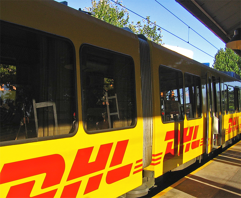 Tren de la Costa DHL advertising in Delta Sration